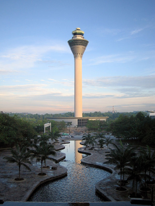 KLIA Tower in the morning sun, Tower des Flughafens Kuala Lumpur am Morgen